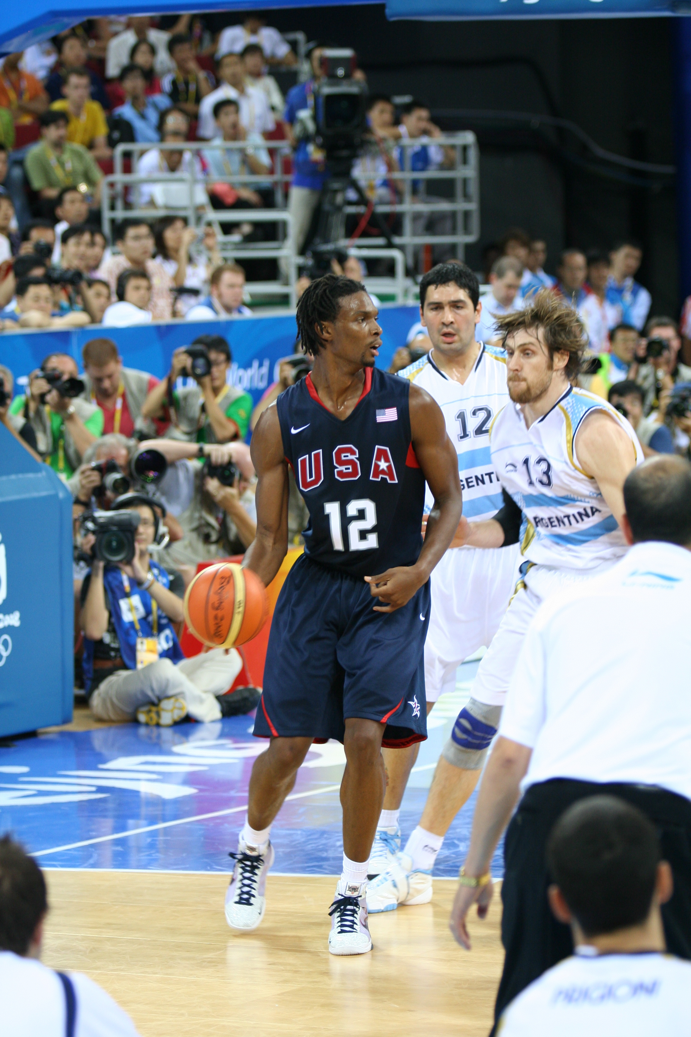 Chris Bosh of the Toronto Raptors, vs Argentina